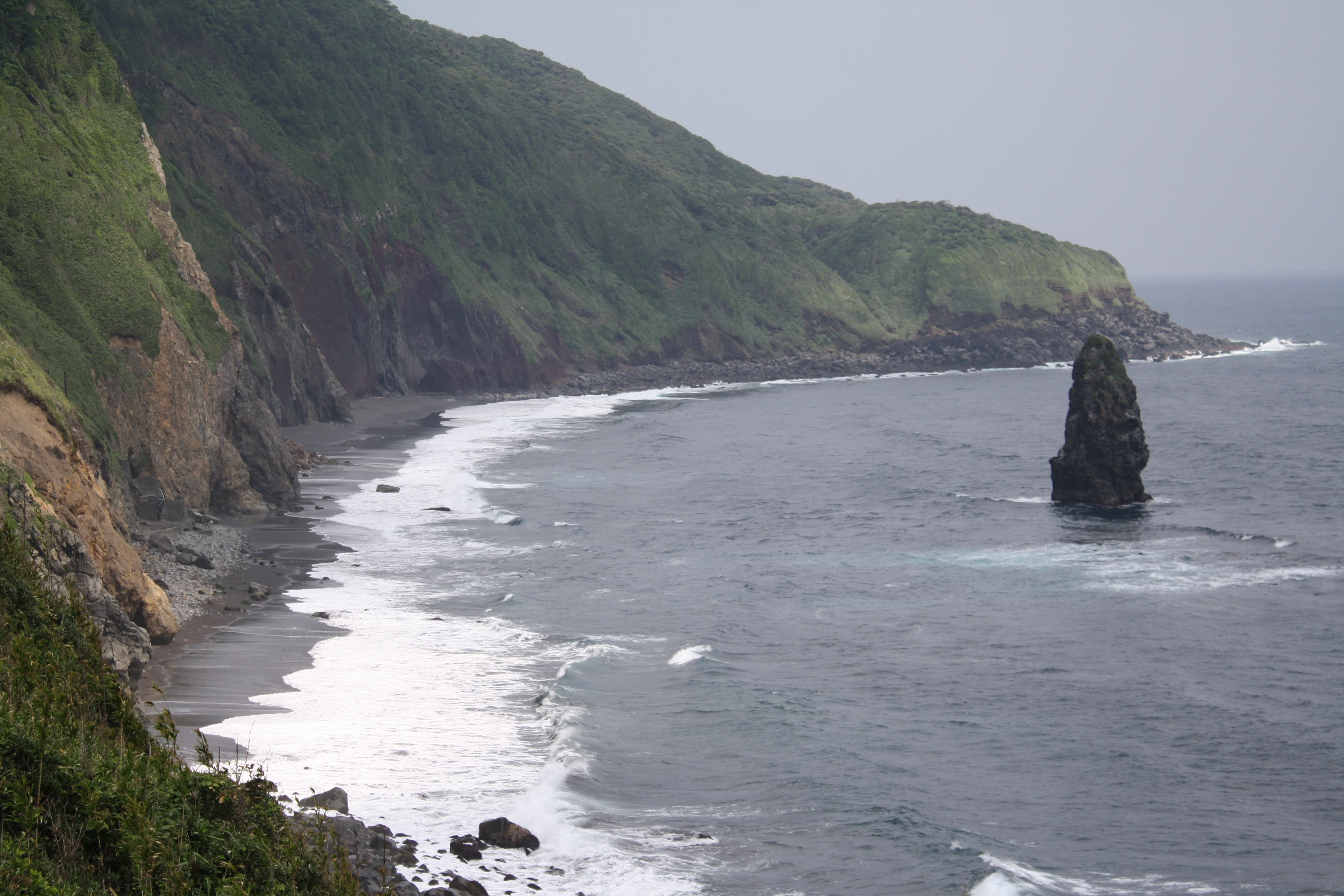 Fudeshima is a small island or rock in Oshima, Tokyo.